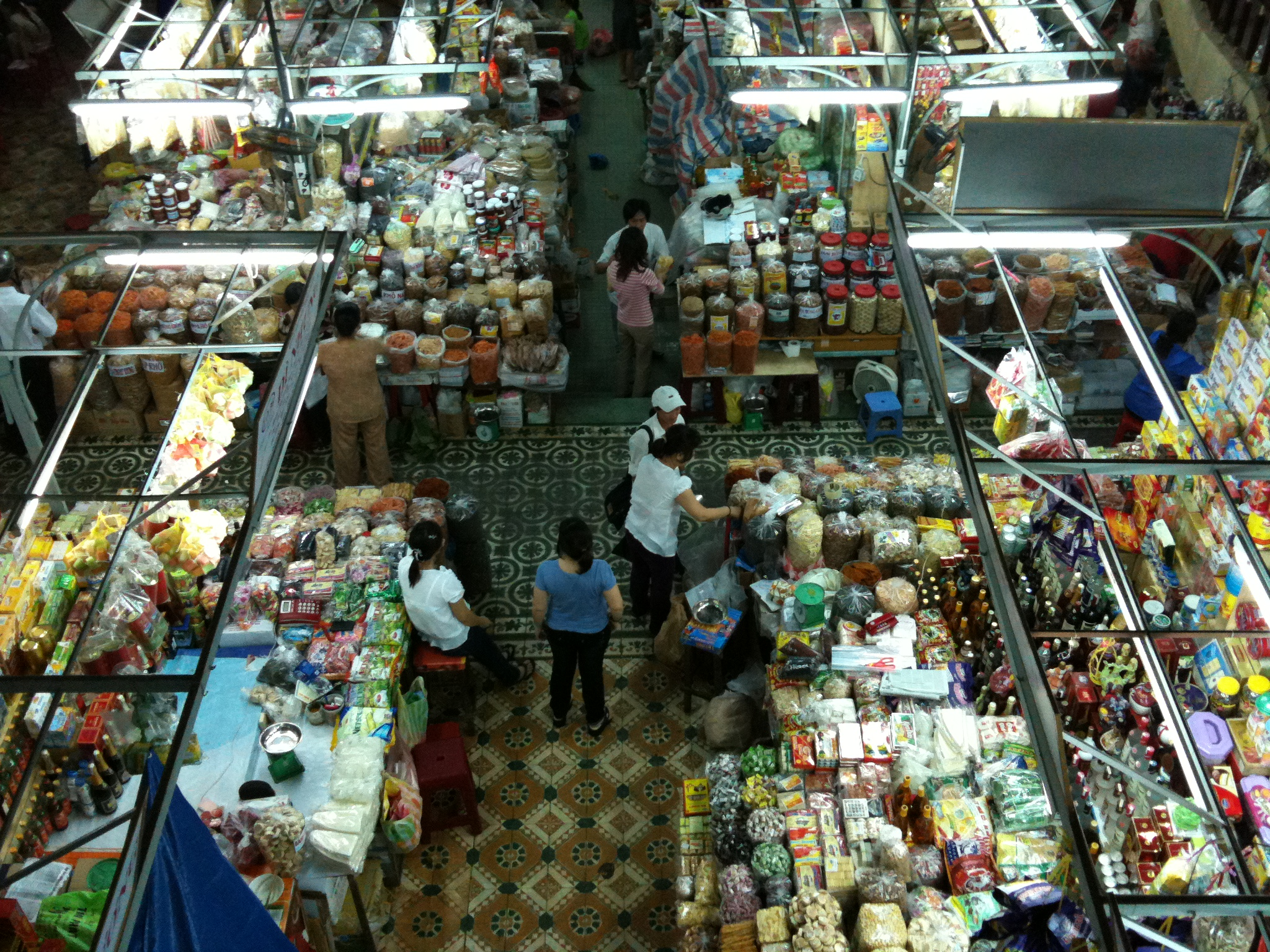 Shoppers browsing through the aisles in the Han Market building, Da Nang, Vietnam.